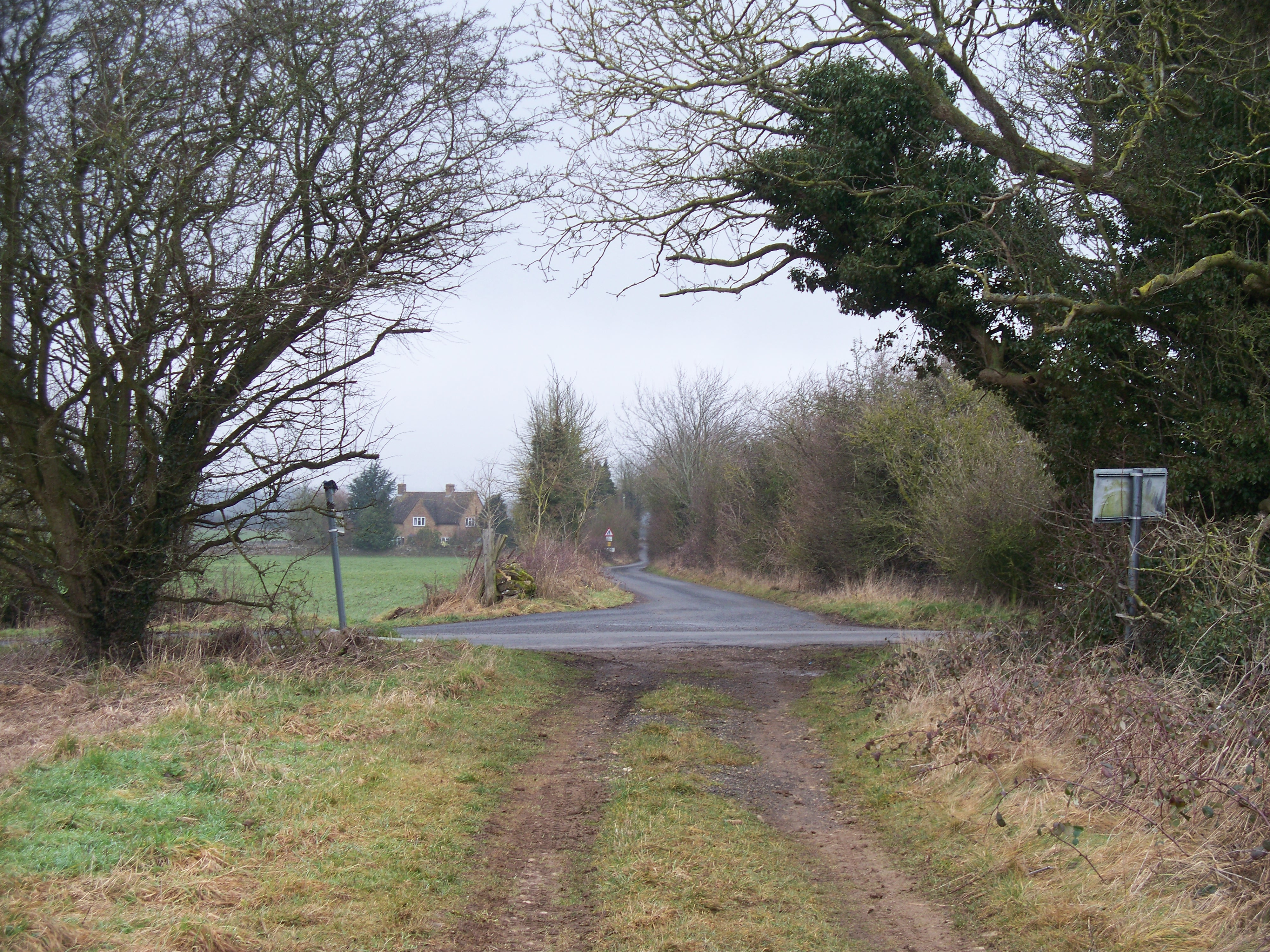 Ryknild Street [5] Ryknild Street or Icknield Street as it's also known, is a Roman road in Britain that runs from Bourton on the Water in Gloucestershire where it connected to the Fosse Way, to Templeborough in South Yorkshire. The Street is locally called Condicote Lane. Seen here the Street crosses the minor road and continues towards Condicote as a surfaced road.